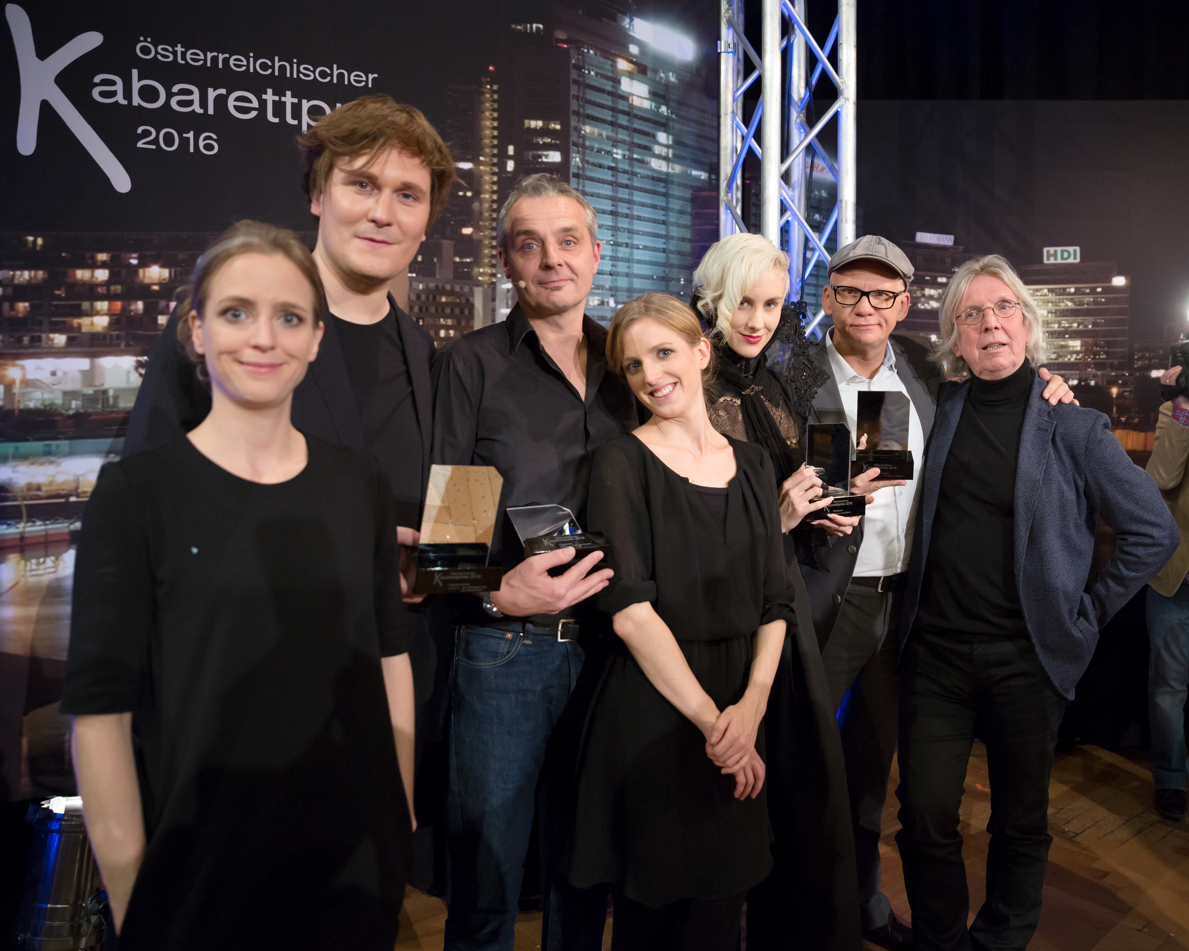 RaDeschnig, Hosea Ratschiller, Thomas Maurer, Lisa Eckhart, Oliver Baier and Gerhard Haderer, the winners of the Austrian Cabaret Awards 2016 at Urania in Vienna, Austria.